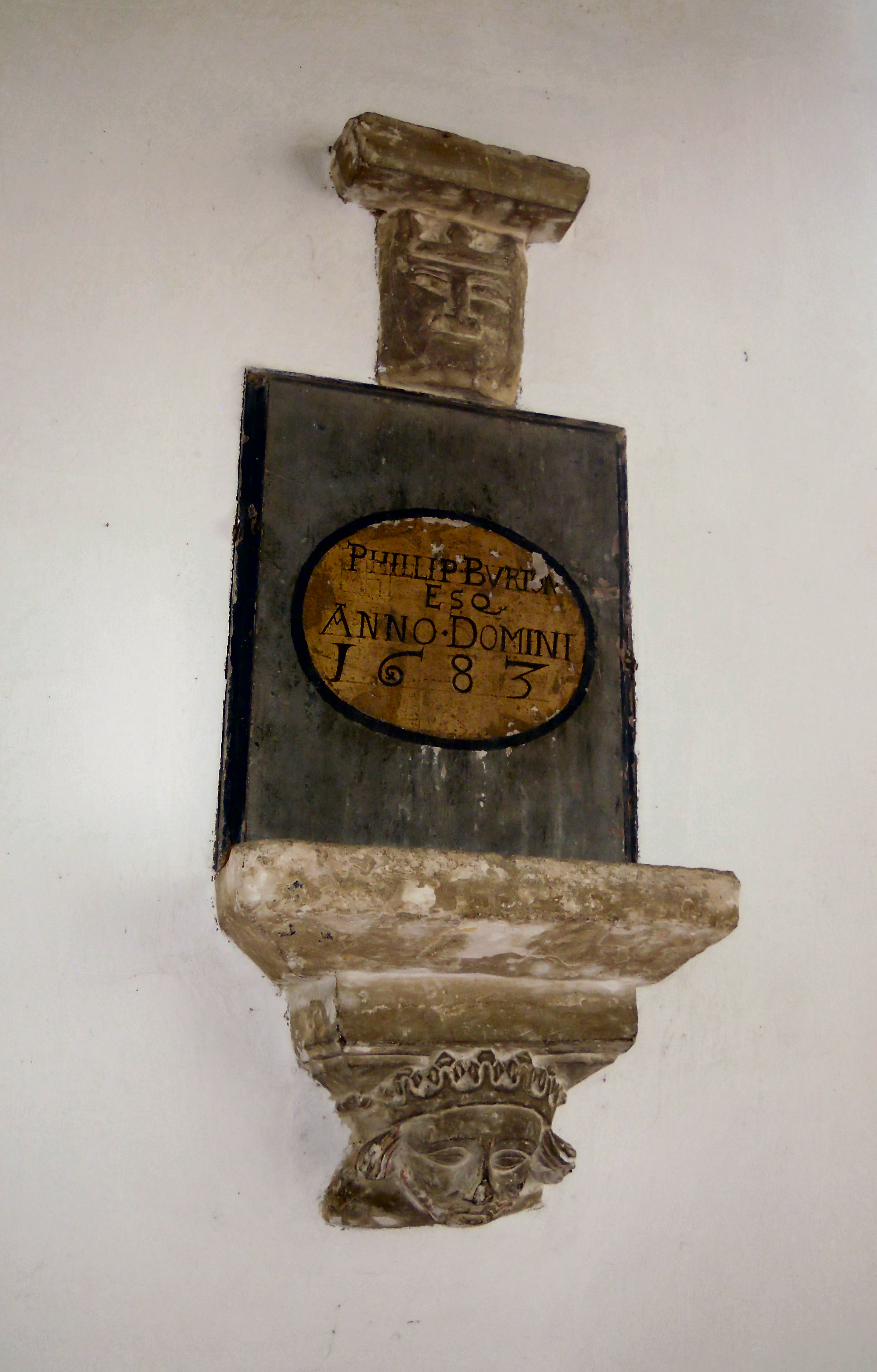 Wooden wall monument to Phillip Burton (died 1683) in the Church of St Mary the Virgin in Gamlingay in Cambridgeshire